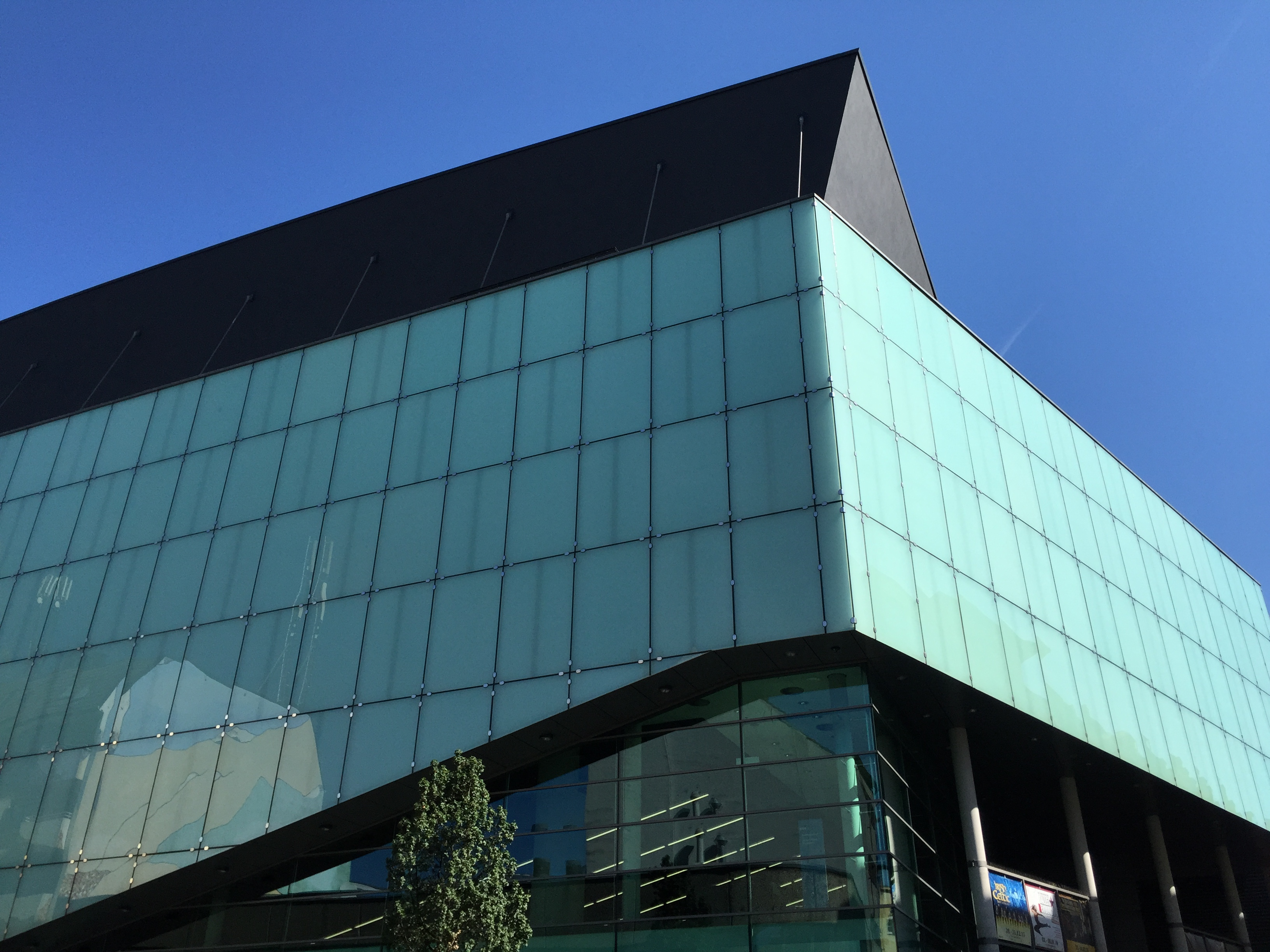 Detail of Concert hall Dortmund